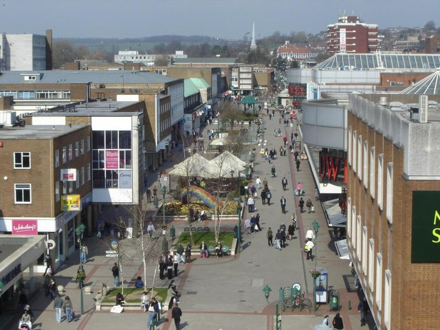 Marlowes, Hemel Hempstead St Mary's Church steeple in Hemel Hempstead Old Town is in the background.